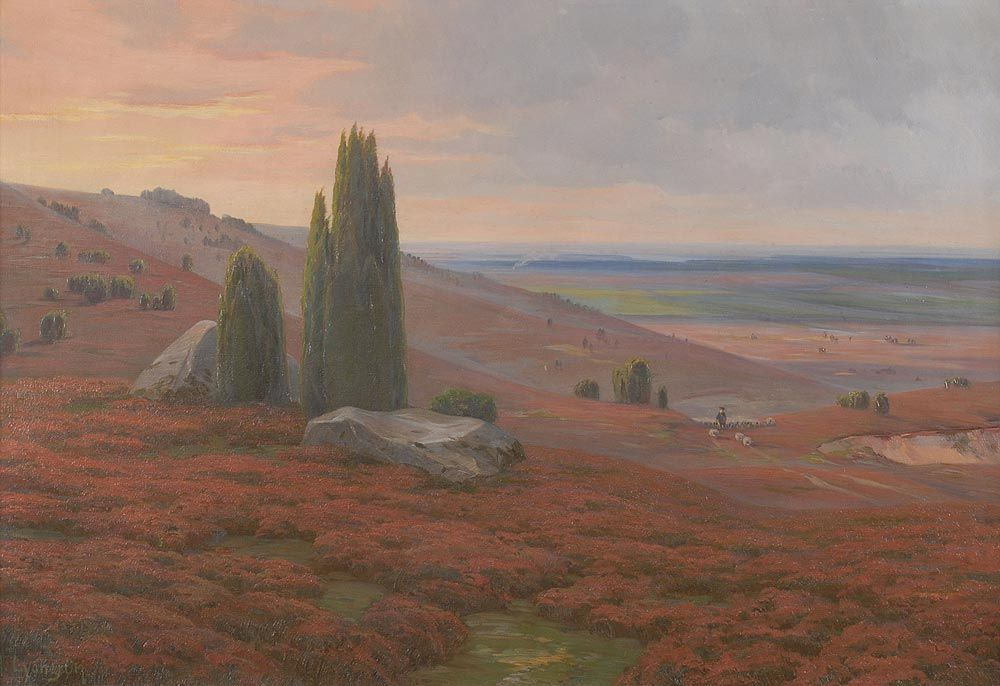 Oil on canvas